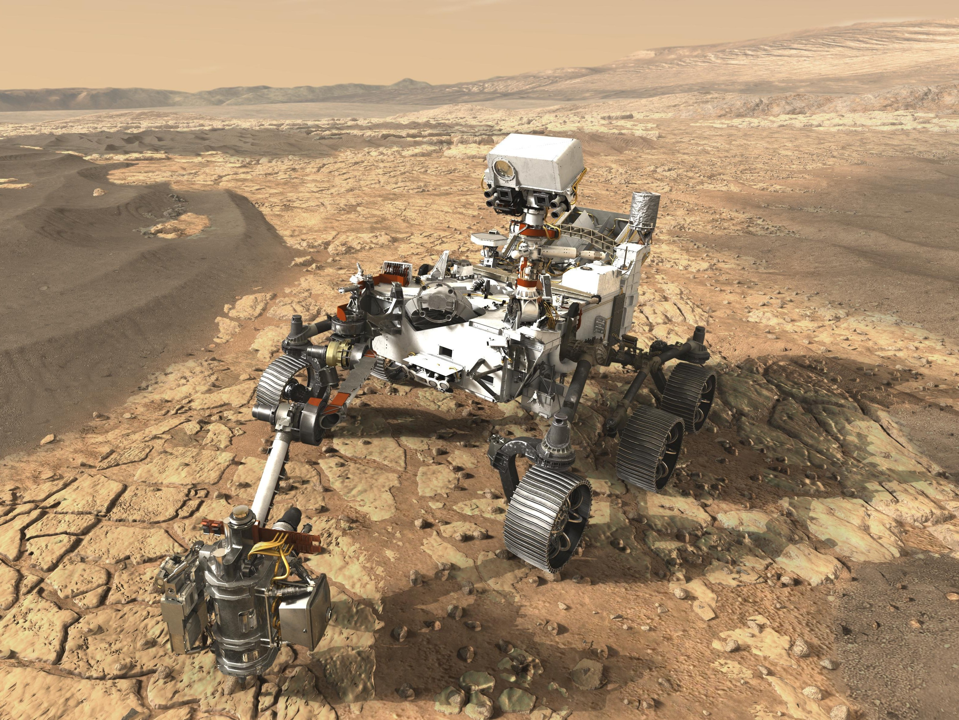 PIA21635: NASA's Mars 2020 Rover Artist's Concept #1 This artist's concept depicts NASA's Mars 2020 rover on the surface of Mars. The mission takes the next step by not only seeking signs of habitable conditions on Mars in the ancient past, but also searching for signs of past microbial life itself. The Mars 2020 rover introduces a drill that can collect core samples of the most promising rocks and soils and set them aside on the surface of Mars. A future mission could potentially return these samples to Earth. Mars 2020 is targeted for launch in July/August 2020 aboard an Atlas V 541 rocket from Space Launch Complex 41 at Cape Canaveral Air Force Station in Florida. NASA's Jet Propulsion Laboratory will build and manage operations of the Mars 2020 rover for the NASA Science Mission Directorate at the agency's headquarters in Washington. For more information about the mission, go to